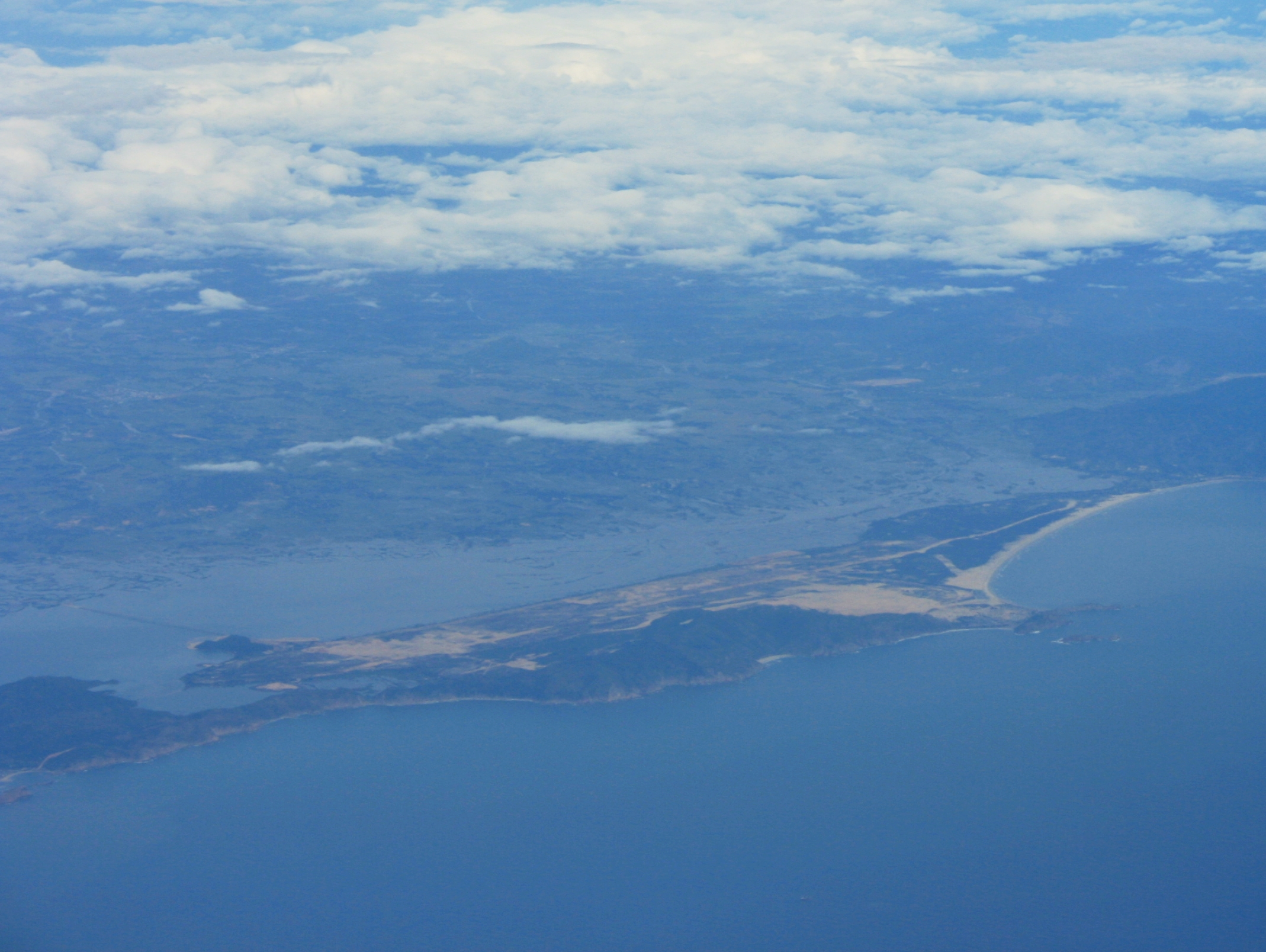 Shot them from the plane between HK and Singapore.